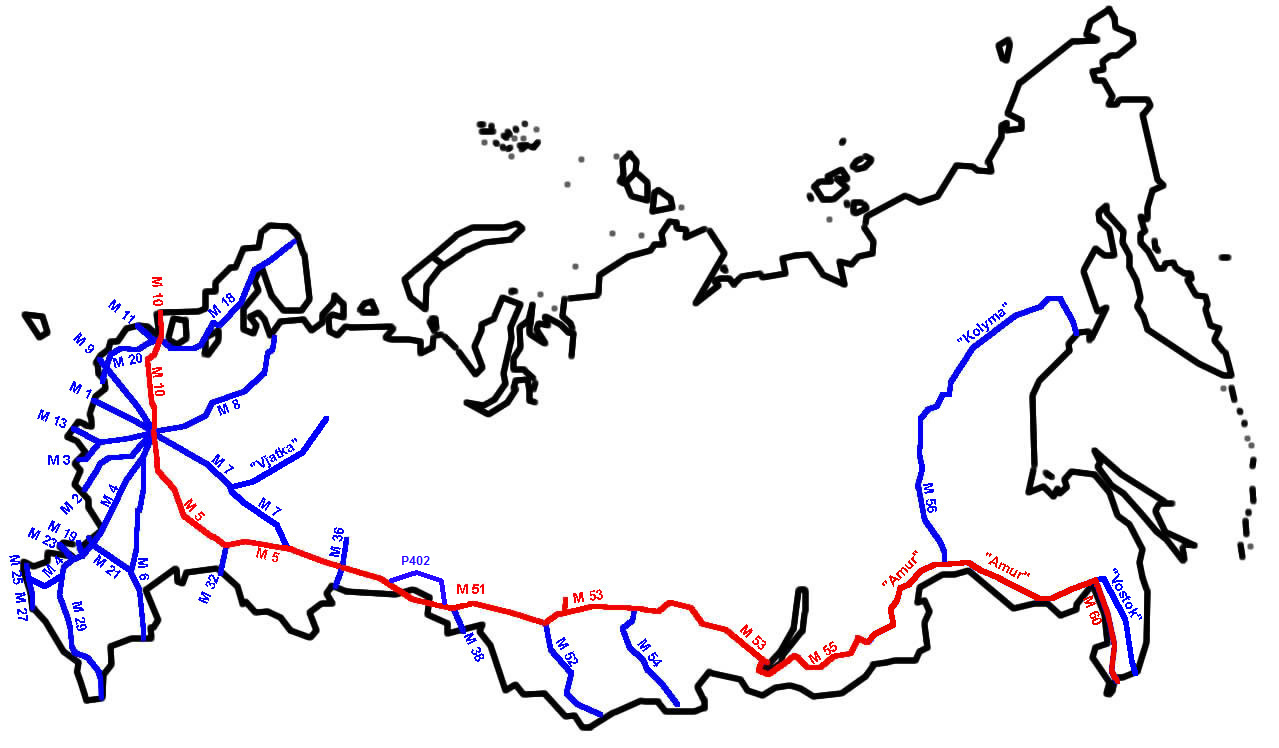 Trans-Siberian Highway with Р402 highway